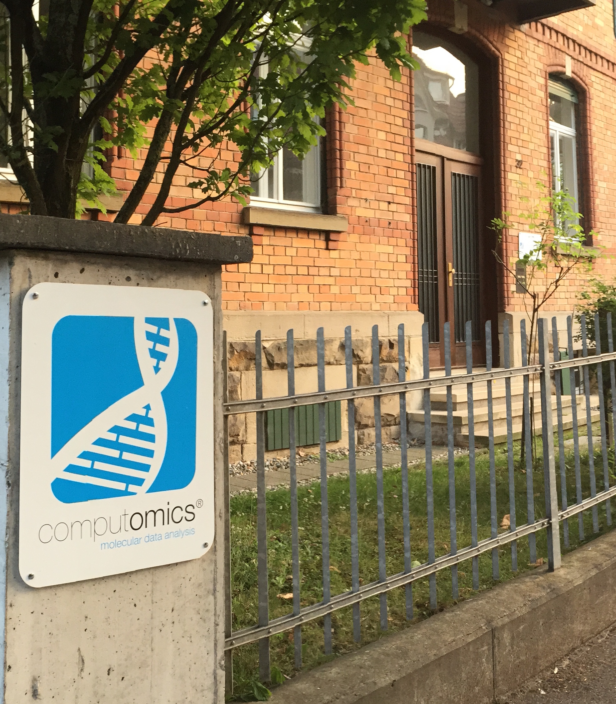 Computomics Headquarters in Christophstraße 32, Tübingen